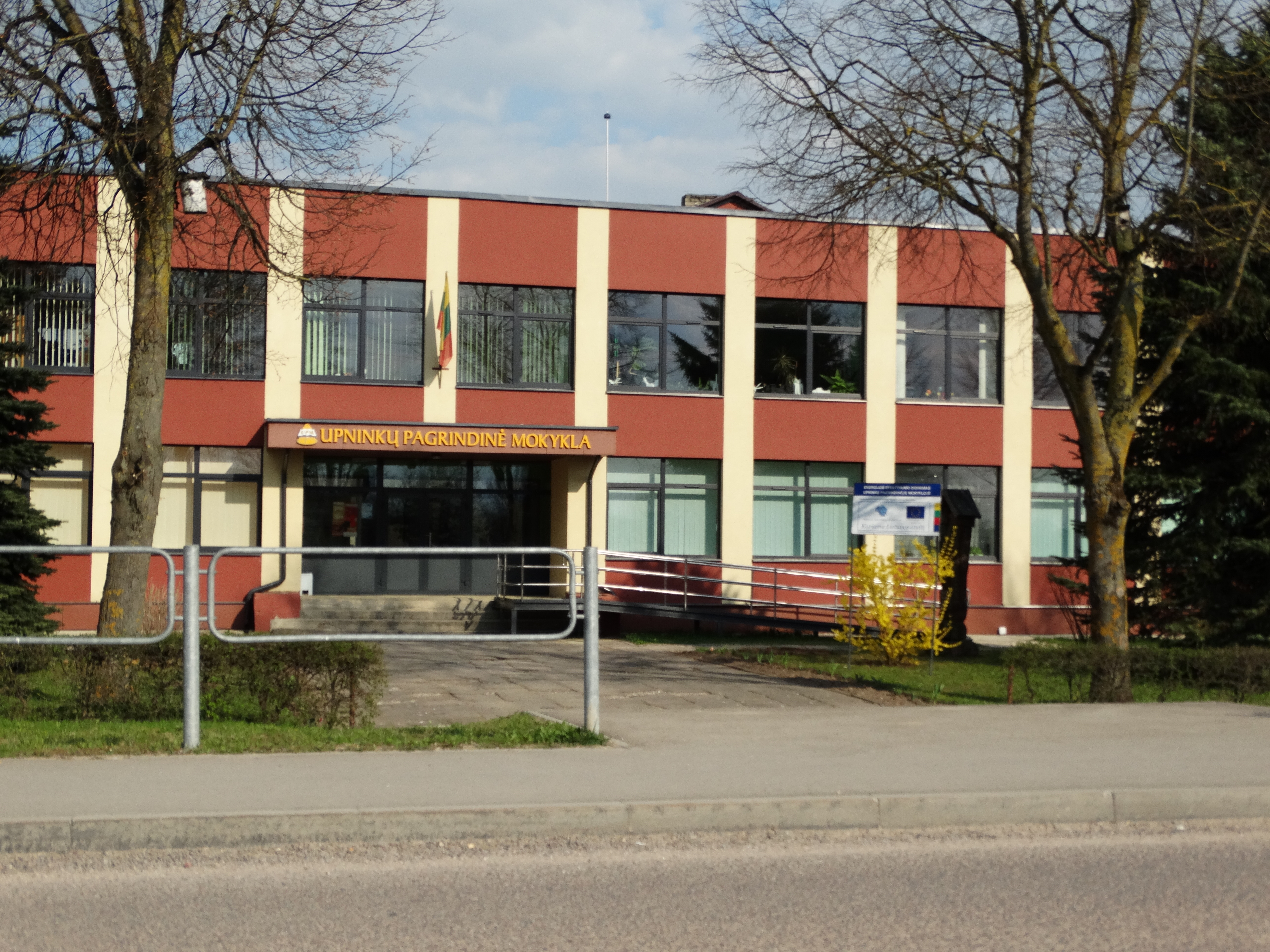 Upninkai Basic School, Jonava district, Lithuania